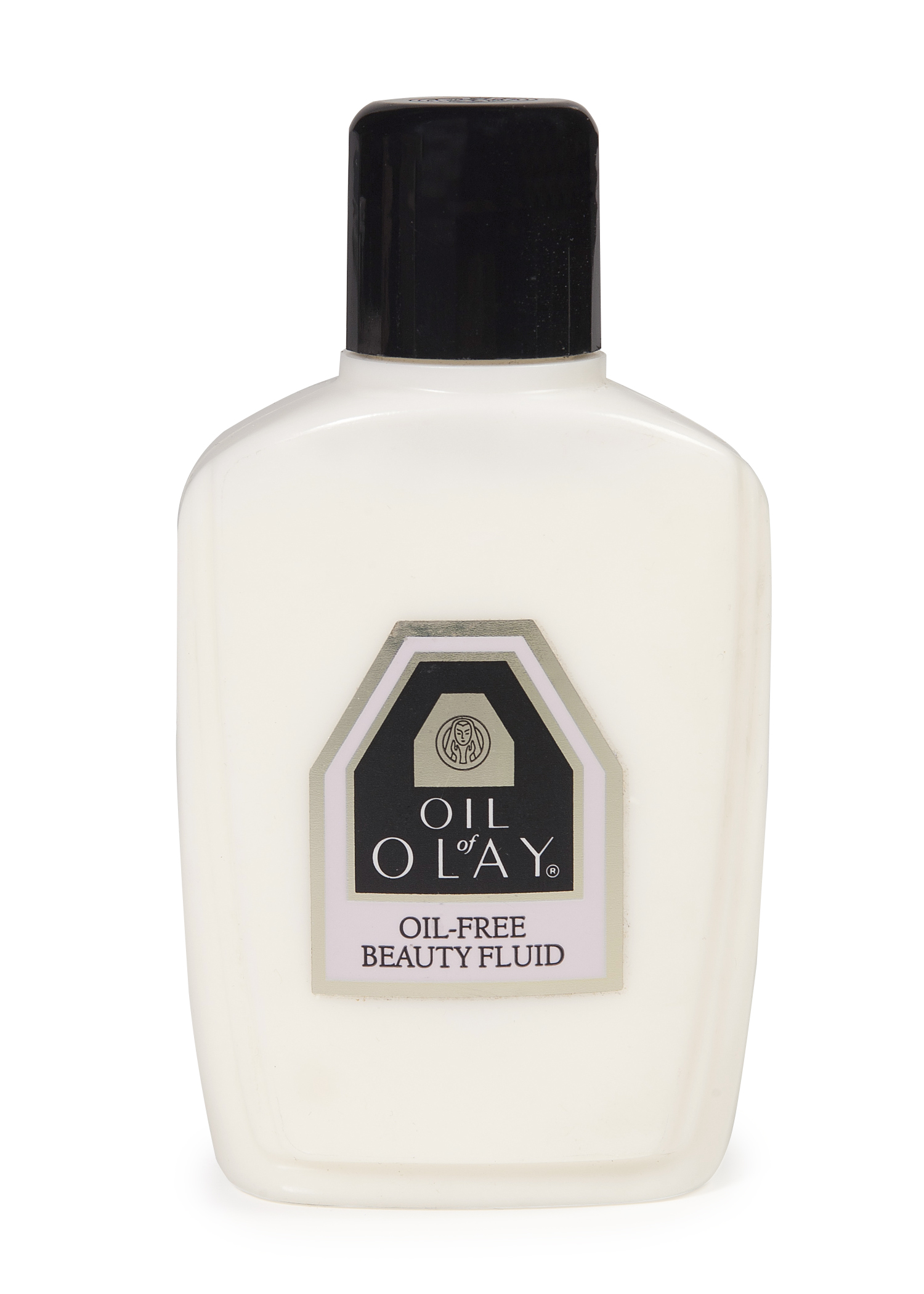 1992 Oil of Olay package and bottle design